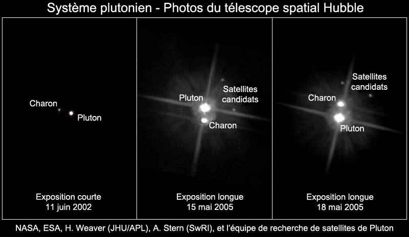 These Hubble Space Telescope images, taken by the Advanced Camera for Surveys, reveal Pluto, its large moon Charon, and the planet's two new putative satellites. In the short-exposure image [left], taken June 11, 2002, the candidate moons cannot be seen. They do, however, appear in the middle and right-hand images. Longer exposure times were used to take these images. Pluto and Charon are overexposed in these images, causing the bright streaks or "blooms" that emerge vertically from them. The candidate moons are not overexposed because they are thousands of times less bright than Pluto and Charon. In these unprocessed images, various optical artifacts of the Advanced Camera for Surveys system are visible, such as the radial spokes of light caused by the telescope's optics. The enhanced-color images of Pluto and Charon were constructed by combining images taken in filters near 475 nanometers (blue) and 555 nanometers (green-yellow). The images of the new satellites were taken in a single filter centered near 606 nanometers (yellow), so no color information is available for them.